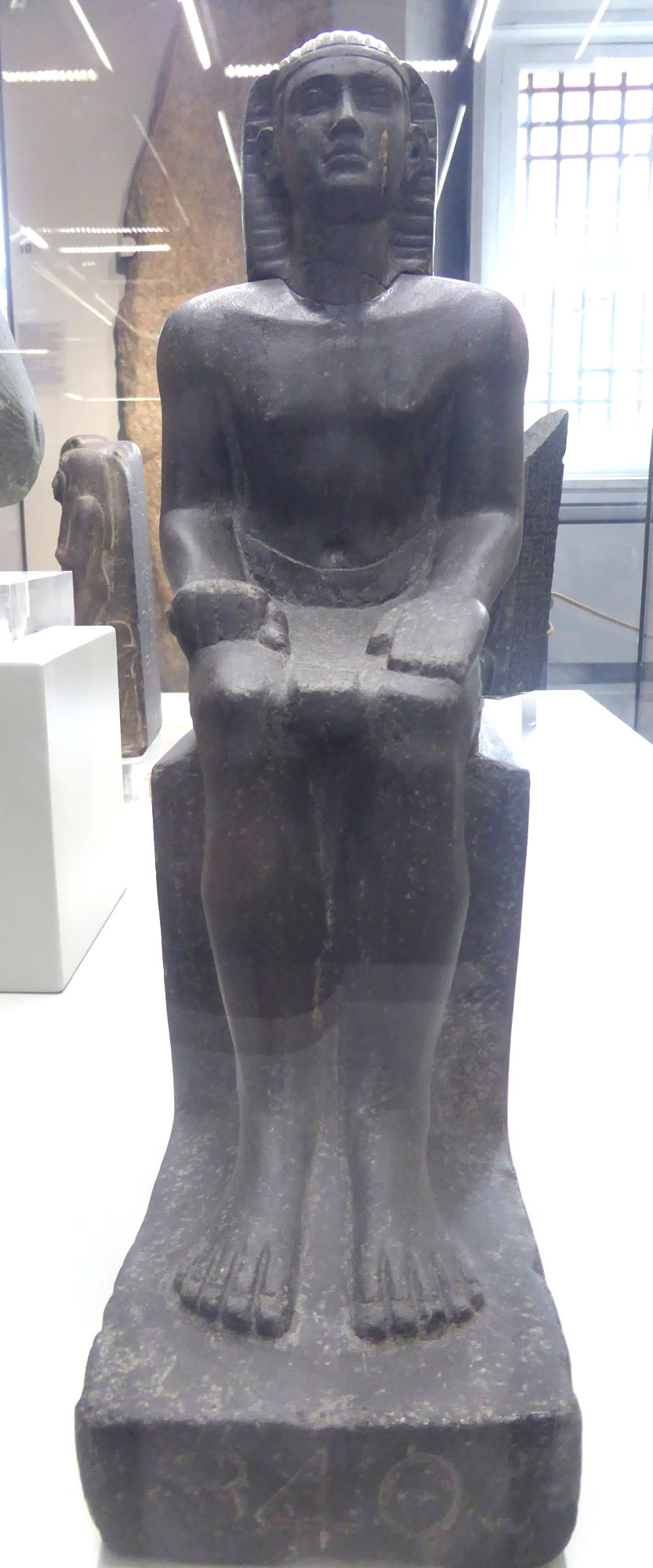 statue of the steward Nakht, Ancient Egypt, Middle Kingdom, head is 18th century reconstruction; Museo archiologico nazionae Napoli